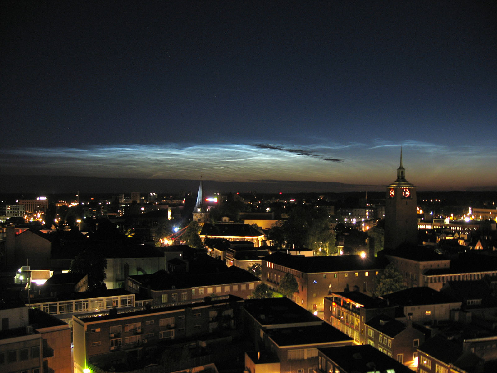 Noctilucent clouds above the city of Enschede, the Netherlands